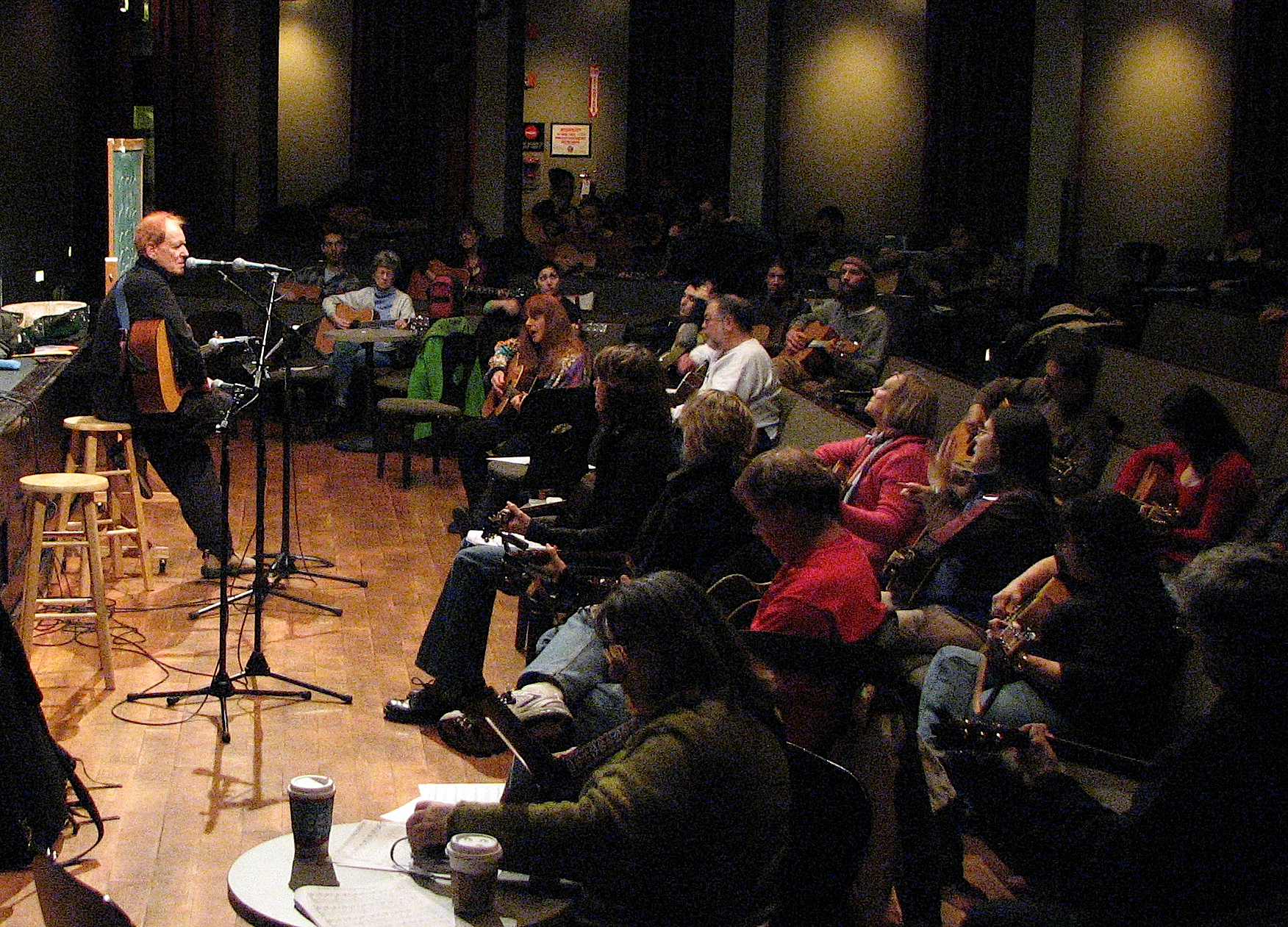 Frank Hamilton at the chalkboard teaching at the Old Town School of Folk Music in Chicago, IL.